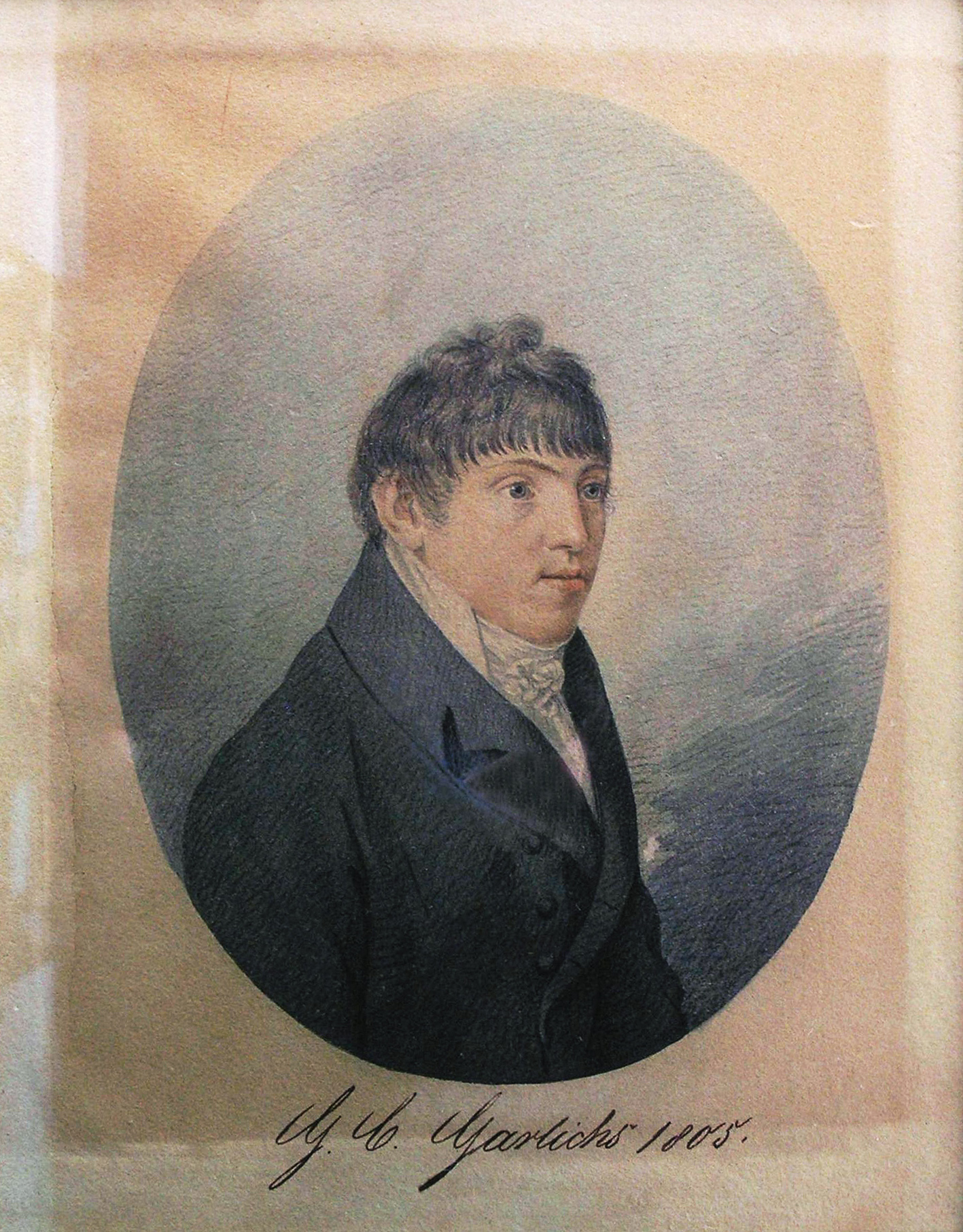 Gerhard Christian GARLICHS, 1778-1830